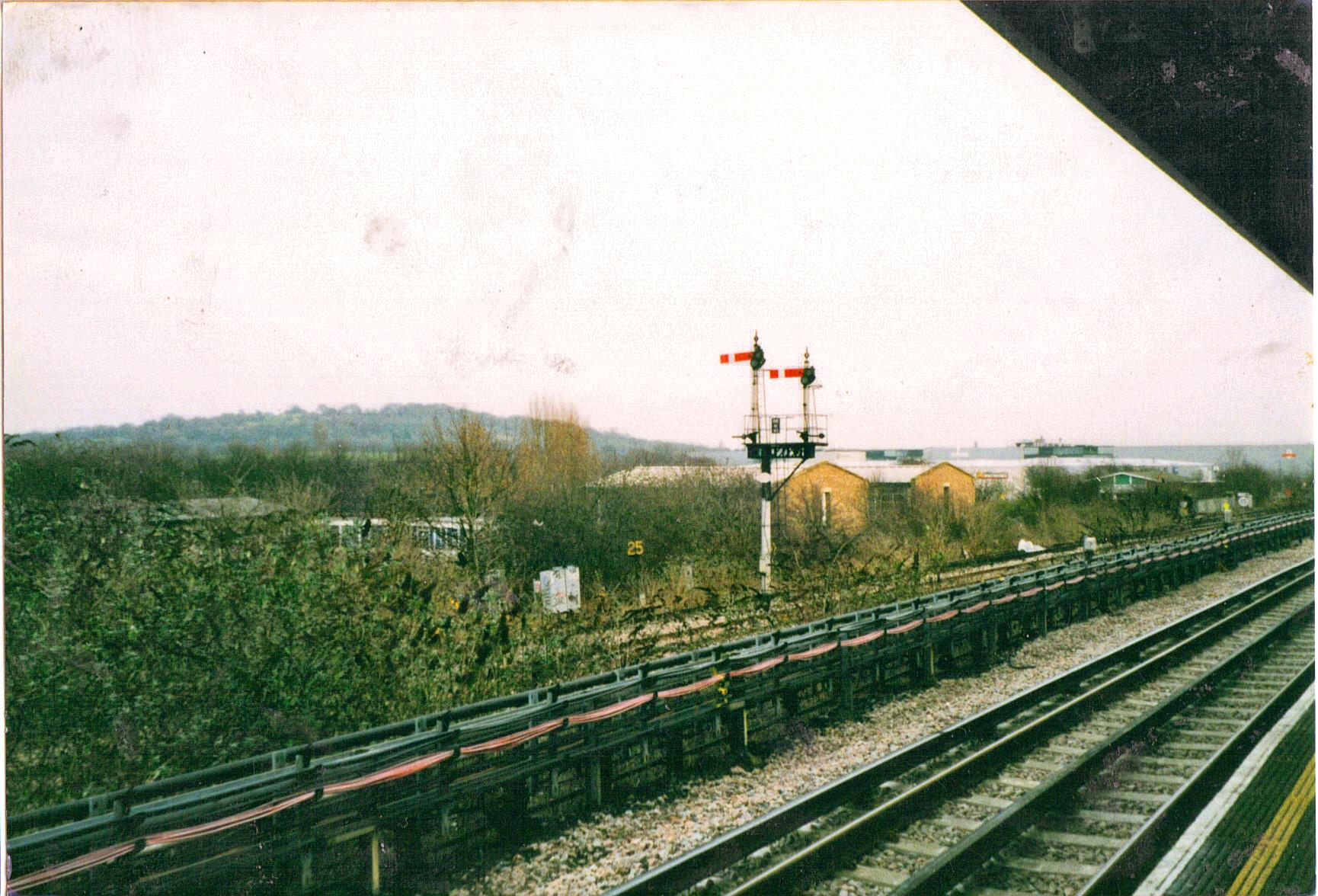 Some semaphore signals at Greenford station in 2002.